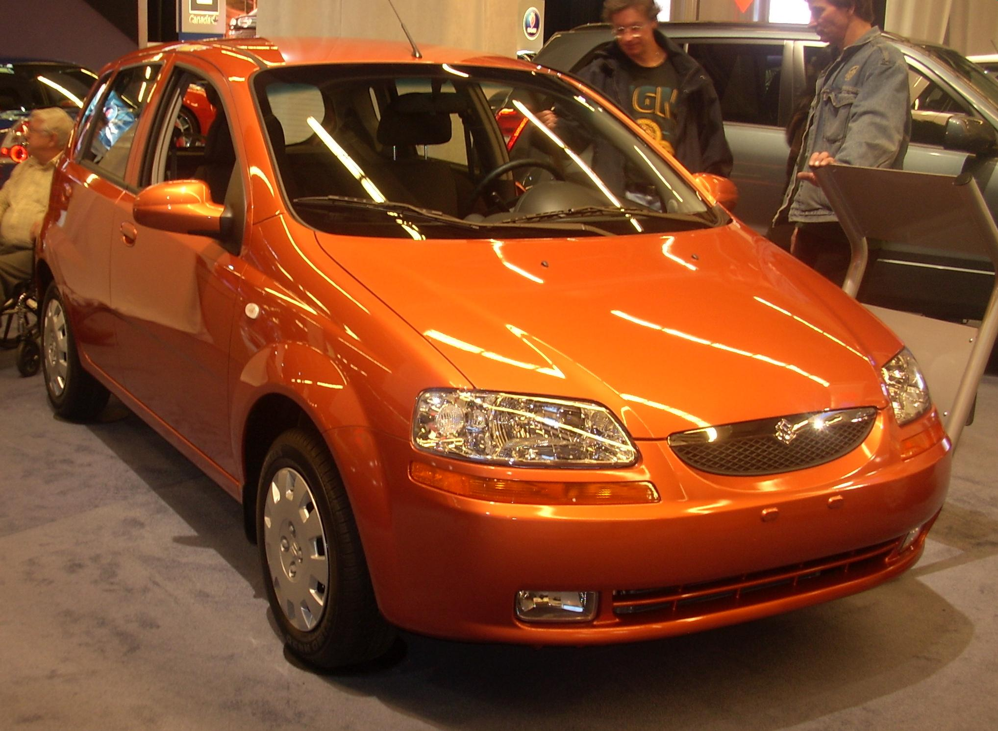 2008 Suzuki Swift+ photographed at the Montreal Auto Show.